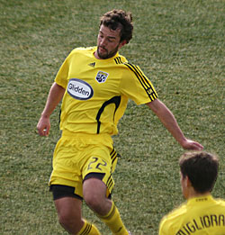 Adam Moffat of the Columbus Crew photographed during the first half of play of a game that took place at Columbus Crew Stadium, on March 29, 2008 vs Toronto FC.